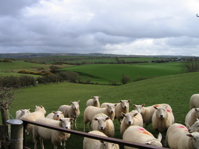 Curious Sheep Defaid chwilfrydig gyda Fferm Ty Newydd yn y cefndir Curious sheep with Ty Newydd Farm in the distance